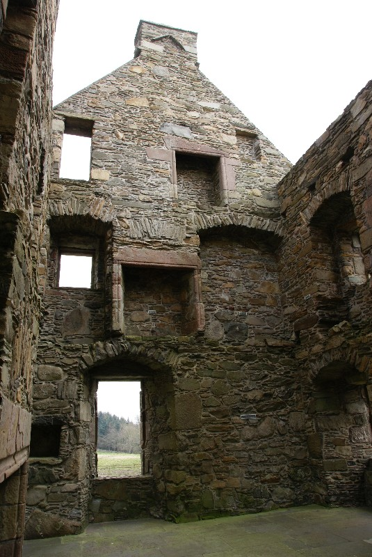 Interior of Carsluith Castle, Dumfries and Galloway, Scotland